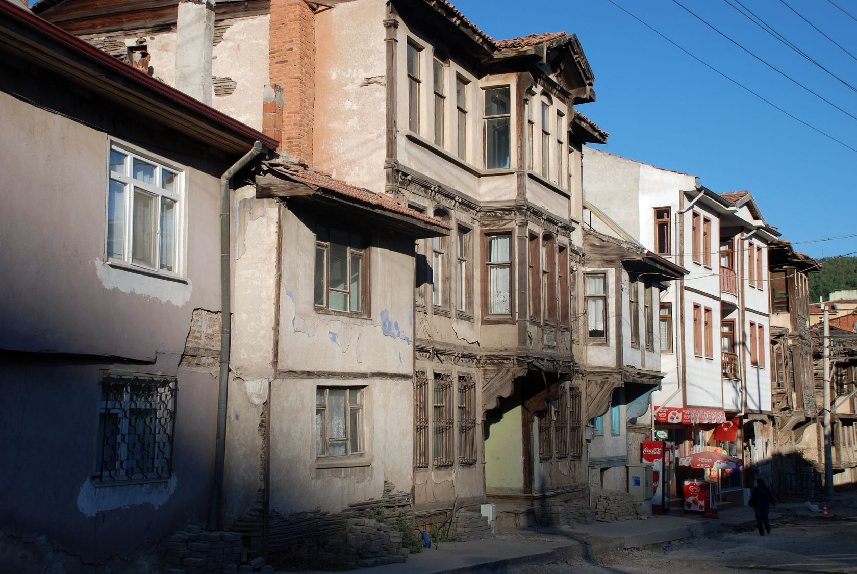 Kastamonu, Turkey